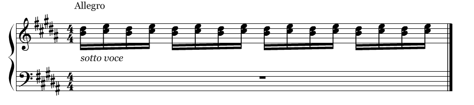 The Opening theme for Chopin's Etude in G♯ Minor